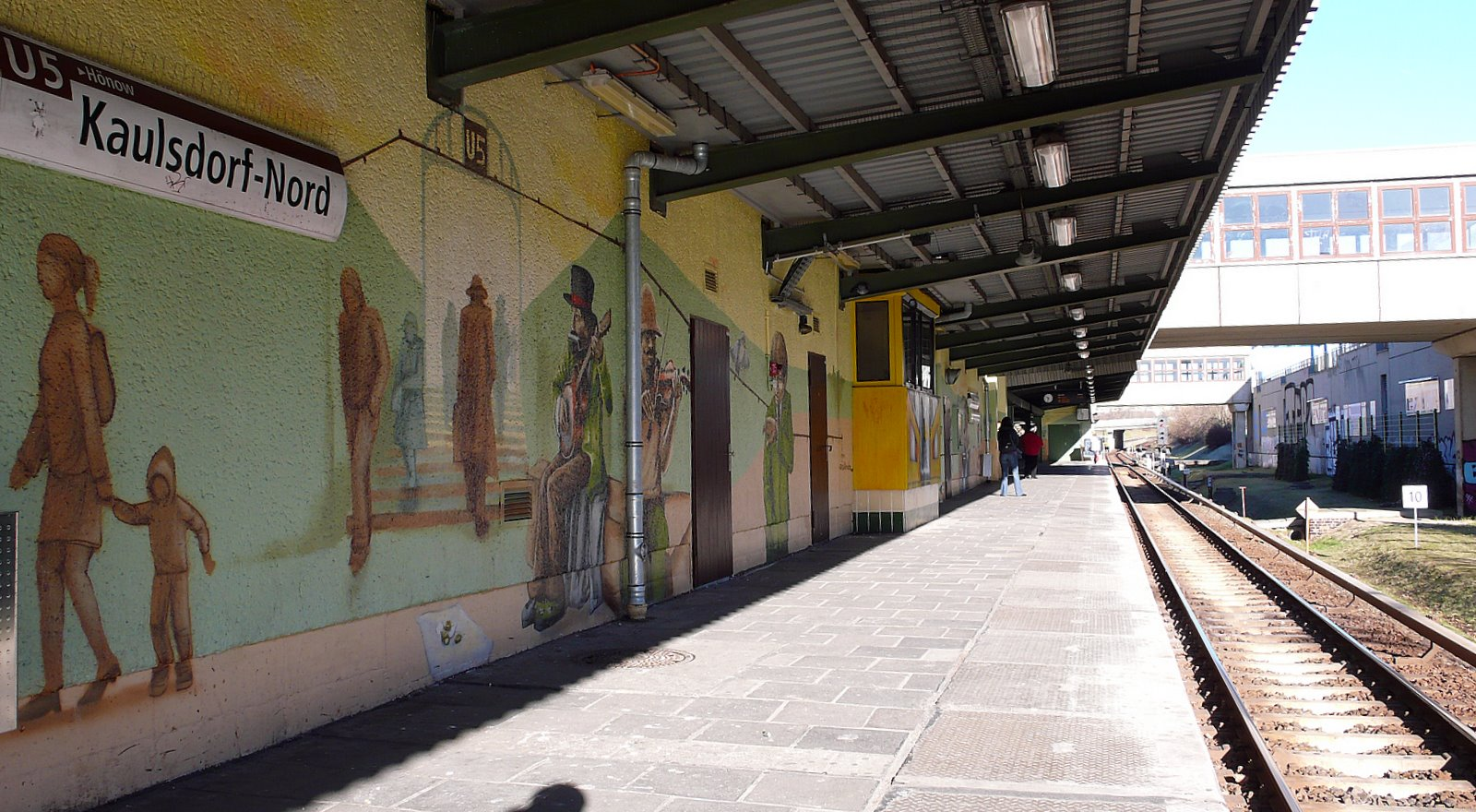 Subway station Kaulsdorf-nord Berlin